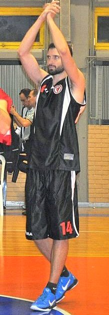 Gregory returing the applause.